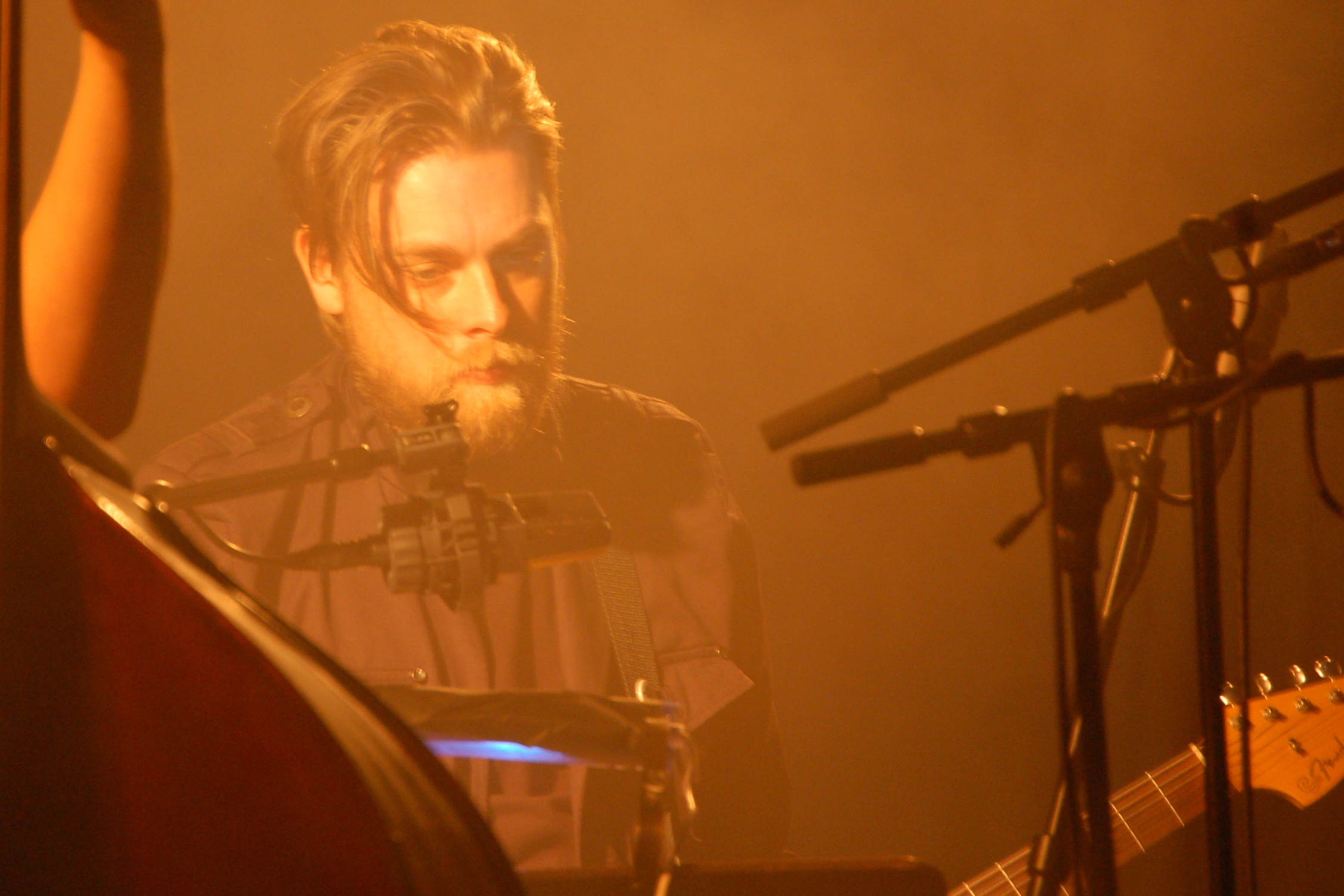 Andreas Mjøs, performing with "In The Country". Photo: Thomas Bjørndahl